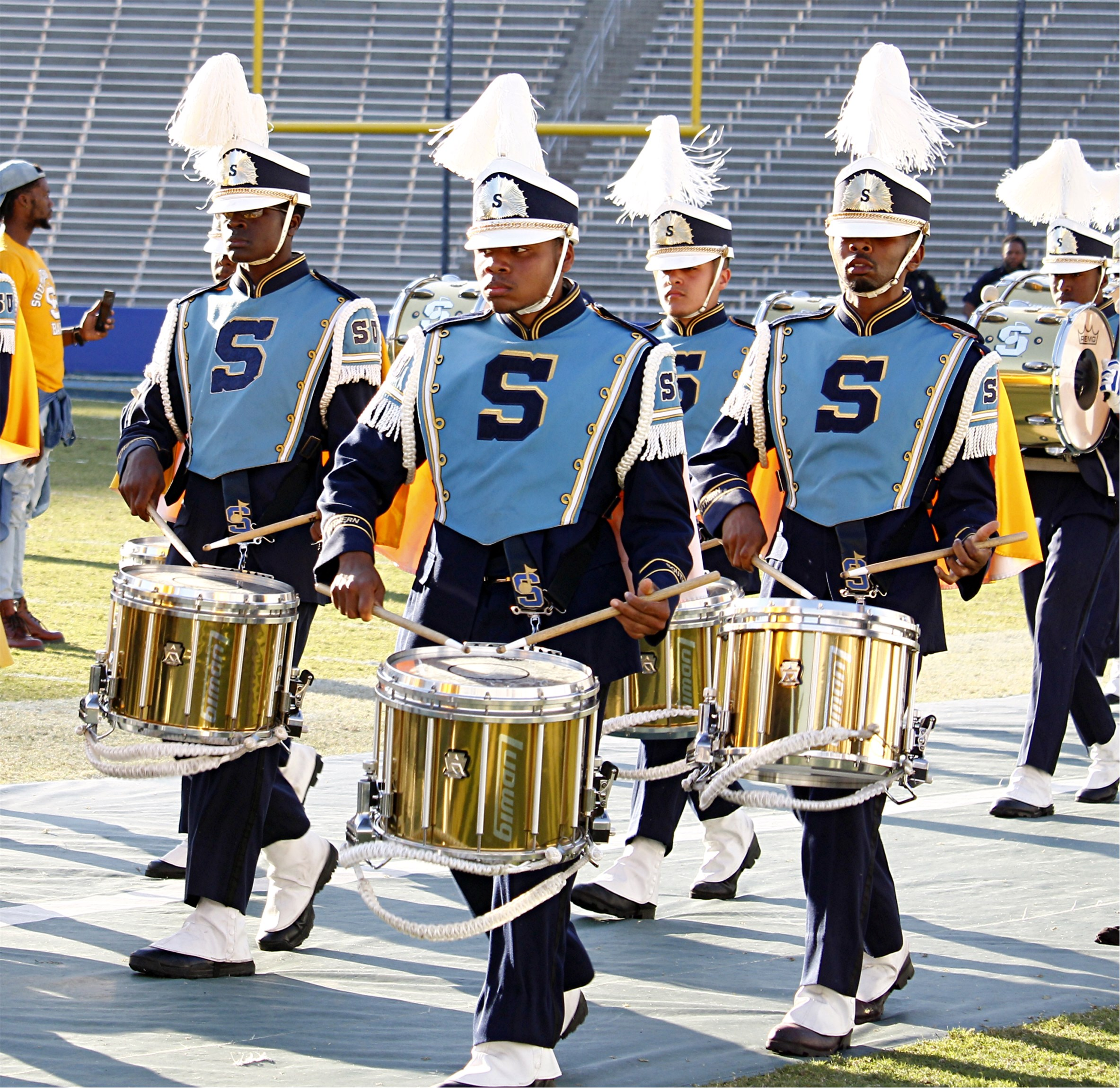 State Fair Showdown 2019 Southern University (SU) Human Jukebox feat. Fabulous Dancing Dolls vs. Texas Southern University (TXSU) Cotton Bowl Stadium Dallas, TX 10/19/19 HBCU Band Warning: Harsh Lighting**